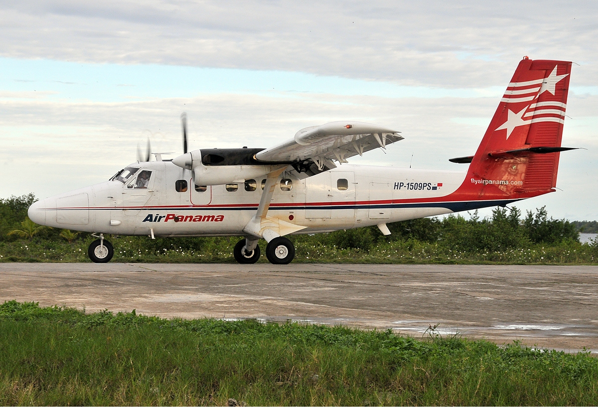 Air Panama De Havilland Canada DHC-6-300 Twin Otter